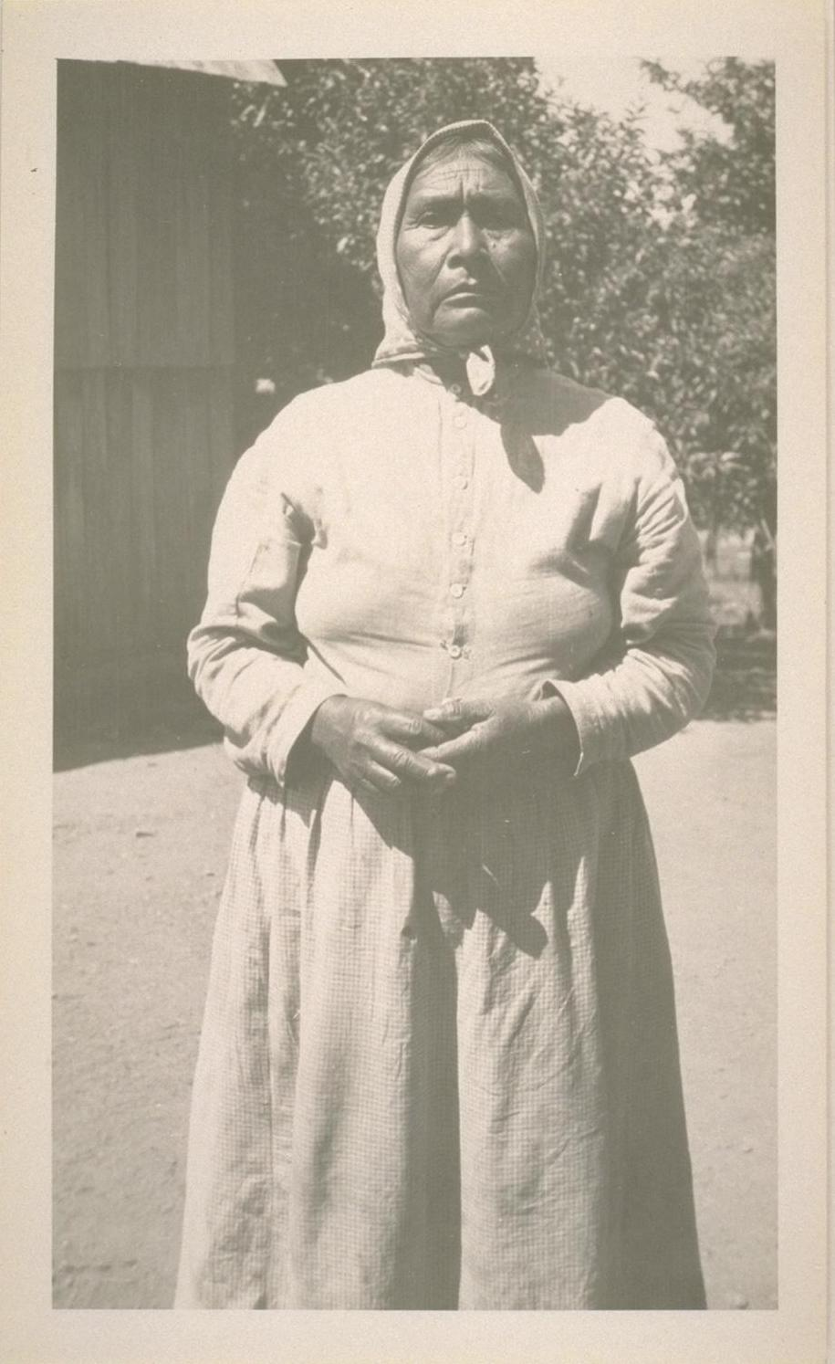 Photograph of Lassik woman Lucy Young. Further information on Young is available at